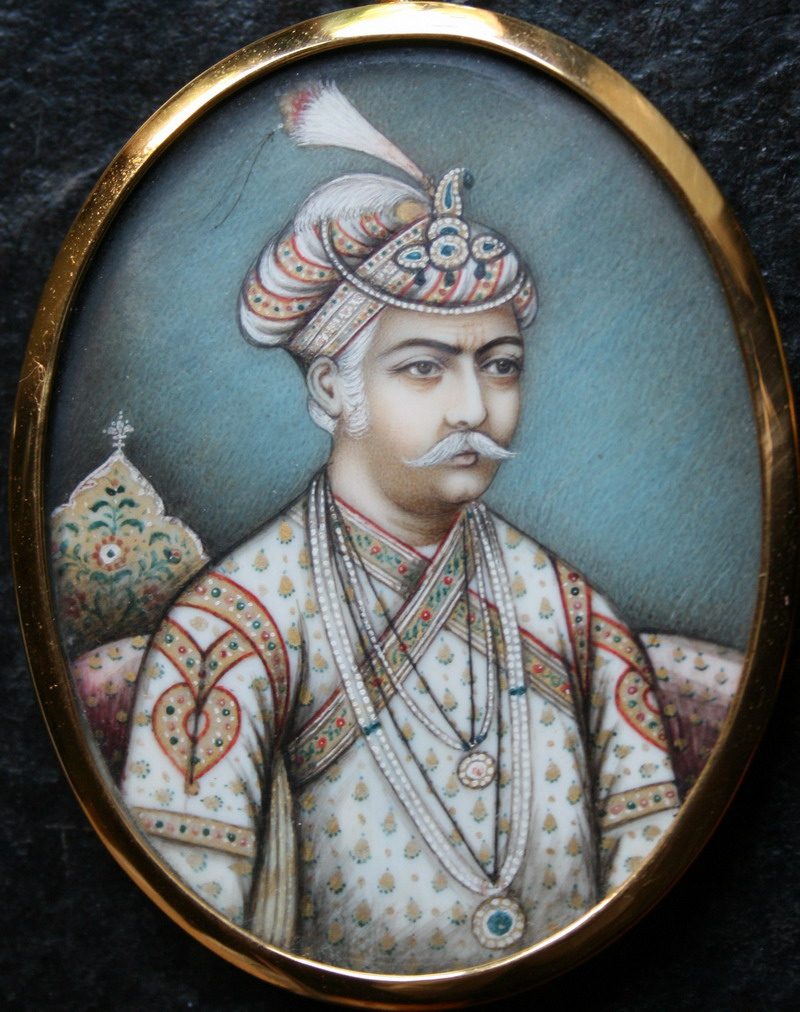 Posthumous portraits of Mughal Emperor Akbar